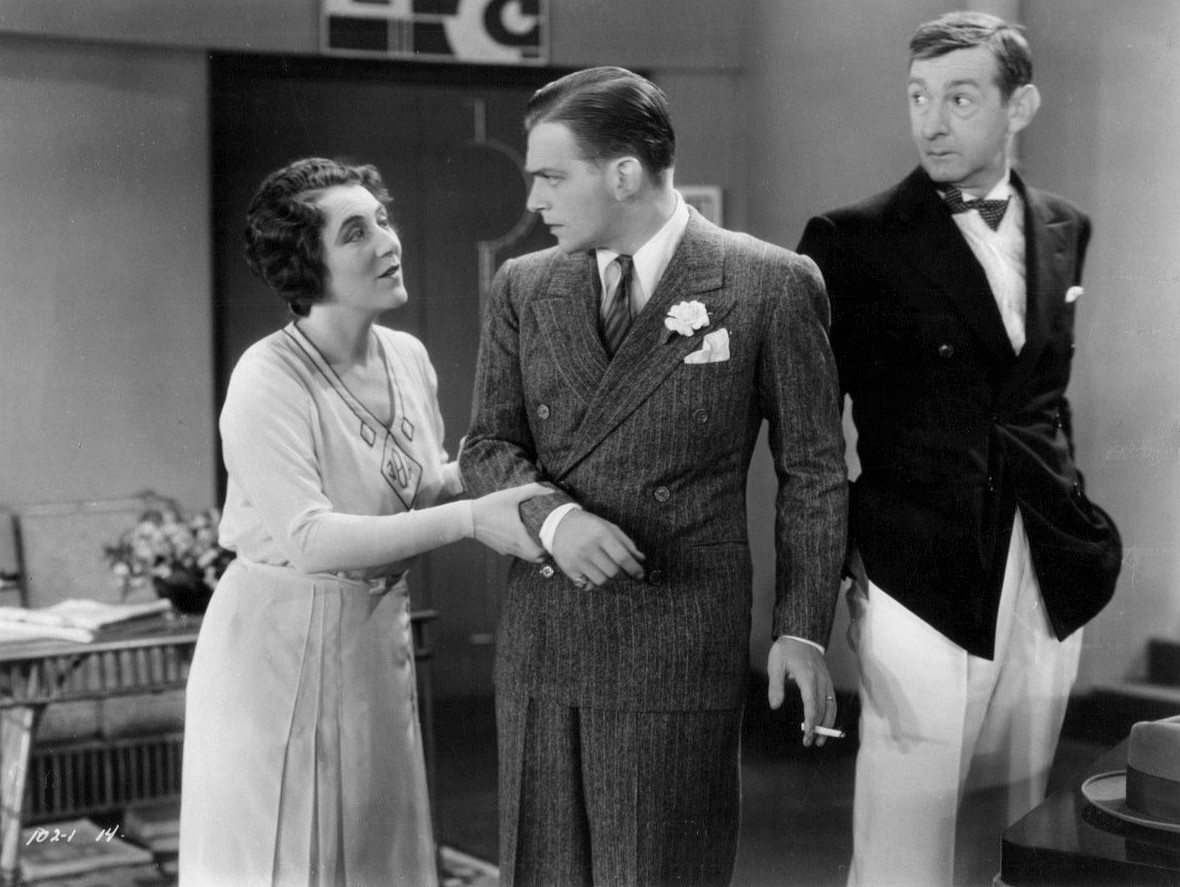 An unidentified actress, Douglas Fairbanks, Jr., and Slim Summerville in a scene from the film Little Accident (1930).